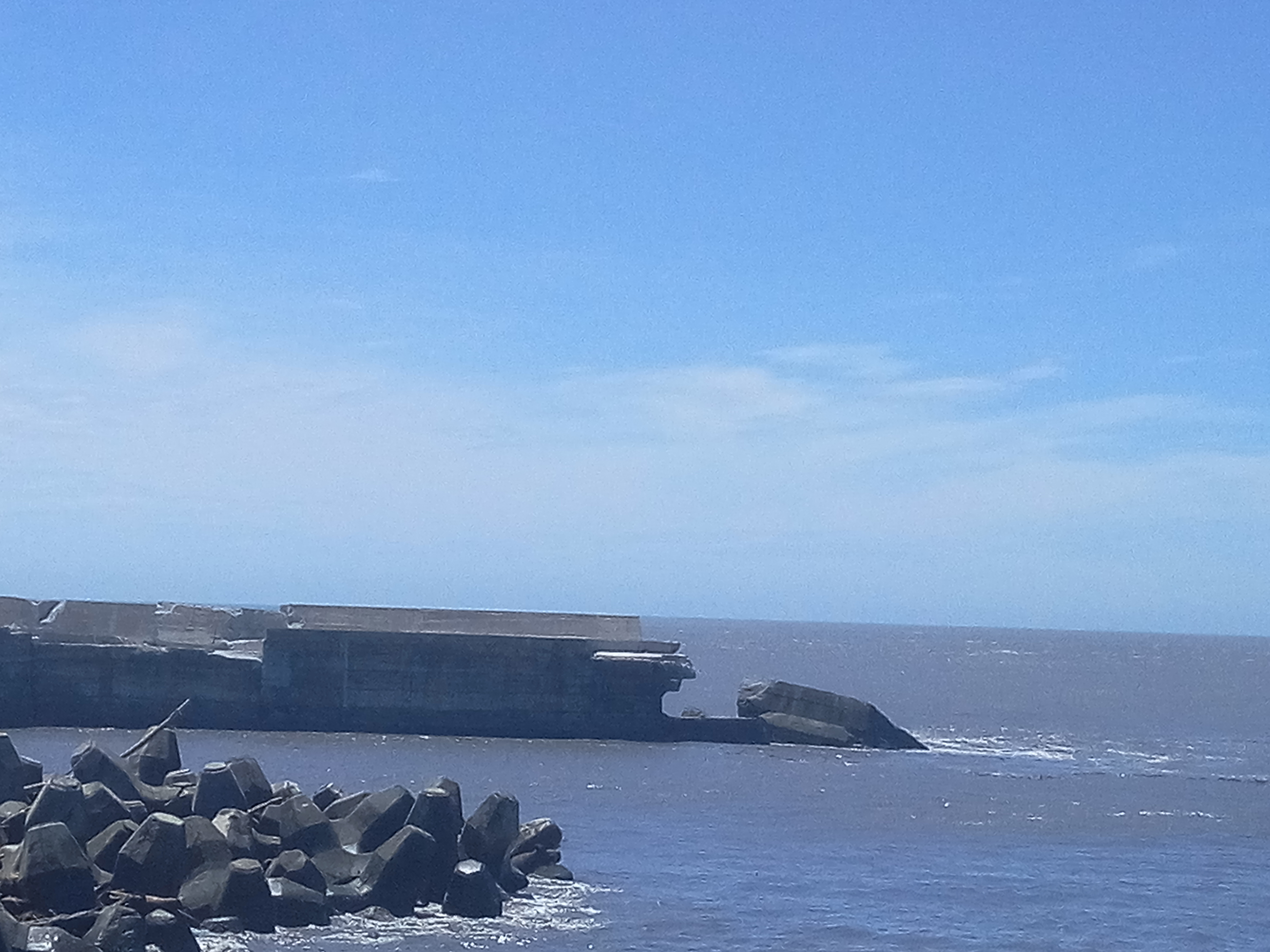 The Fugang Fishery Harbor Light House was broken by Typhoon Meranti in September 14, 2016